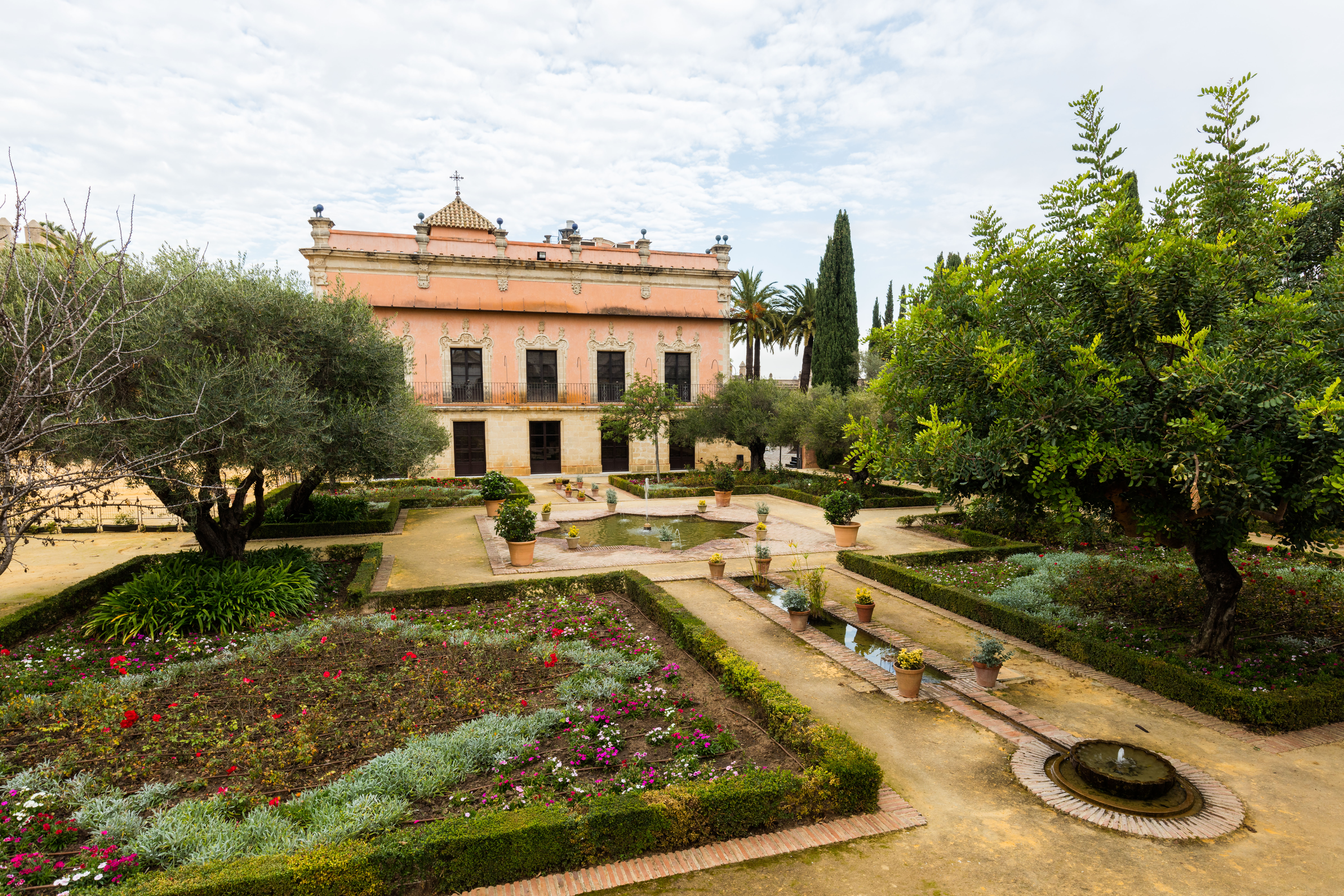 Palace of Villavicencio, Alcázar, Jerez de la Frontera, Spain